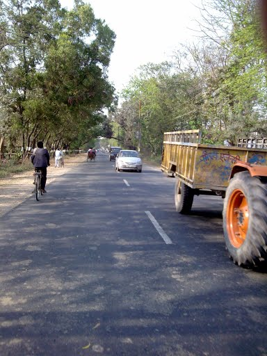 National Highway - 74, runs through Pilibhit, and connects Haridwar to Bareilly via Pilibhit, Kiccha, Kashipur and Nagina city